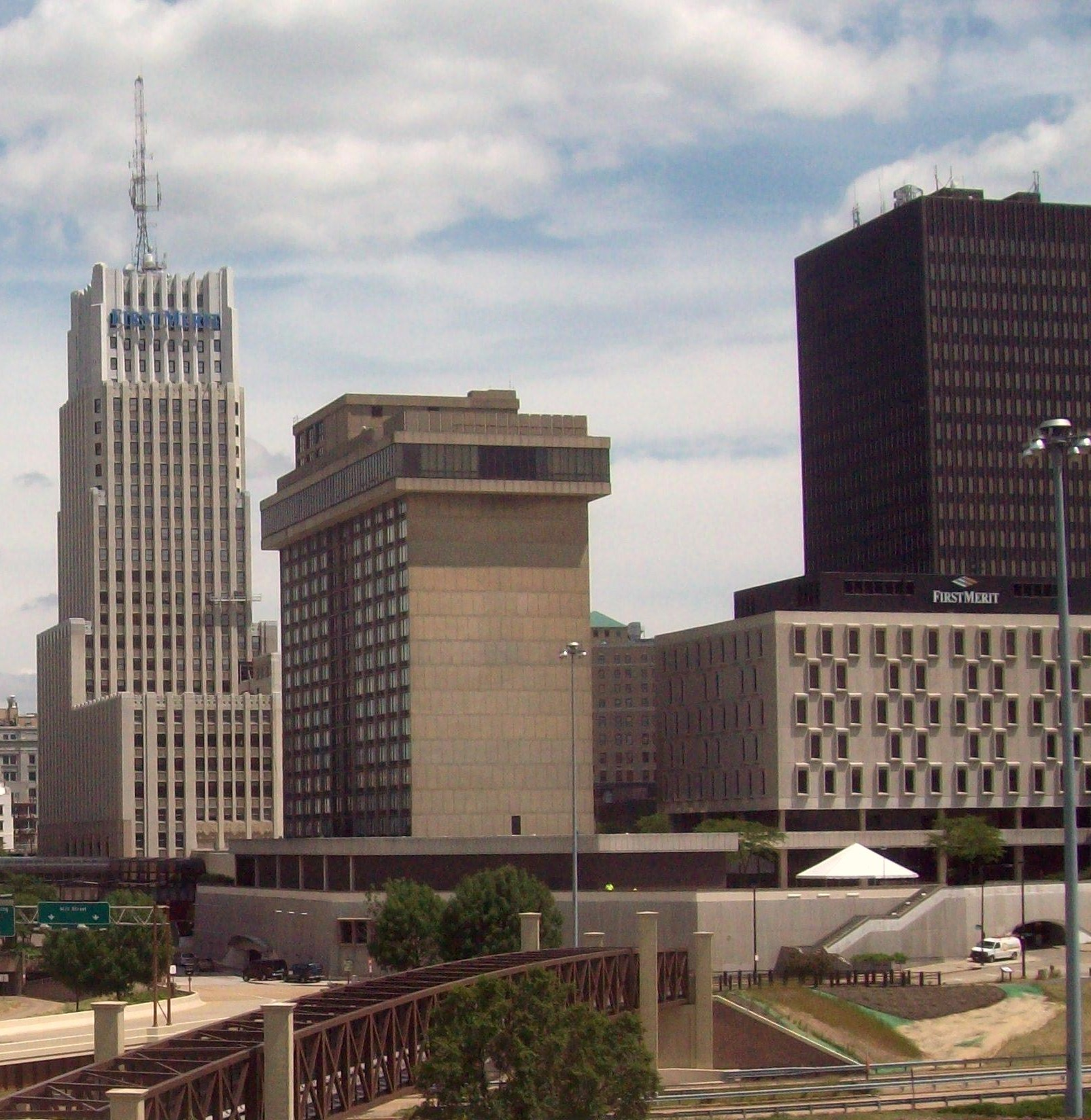 Buildings around the Cascade Plaza in Akron, Ohio